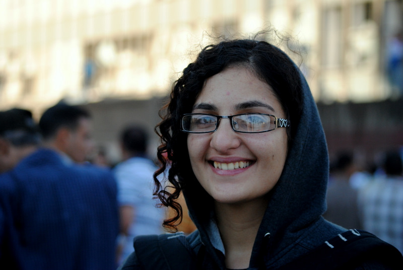 Activist Mona Seif (@monasosh) in Tahrir Square